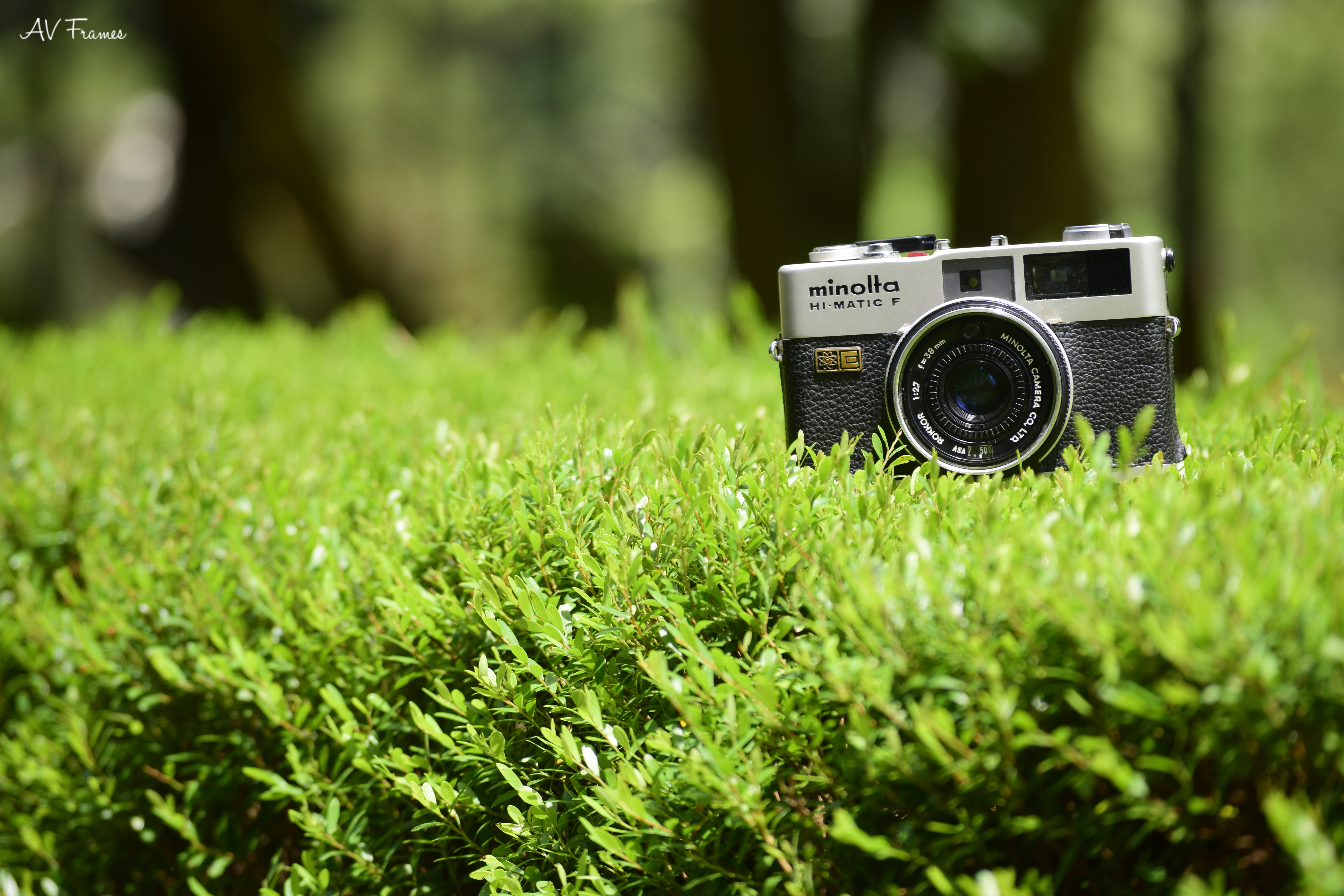 vintage Minolta camera